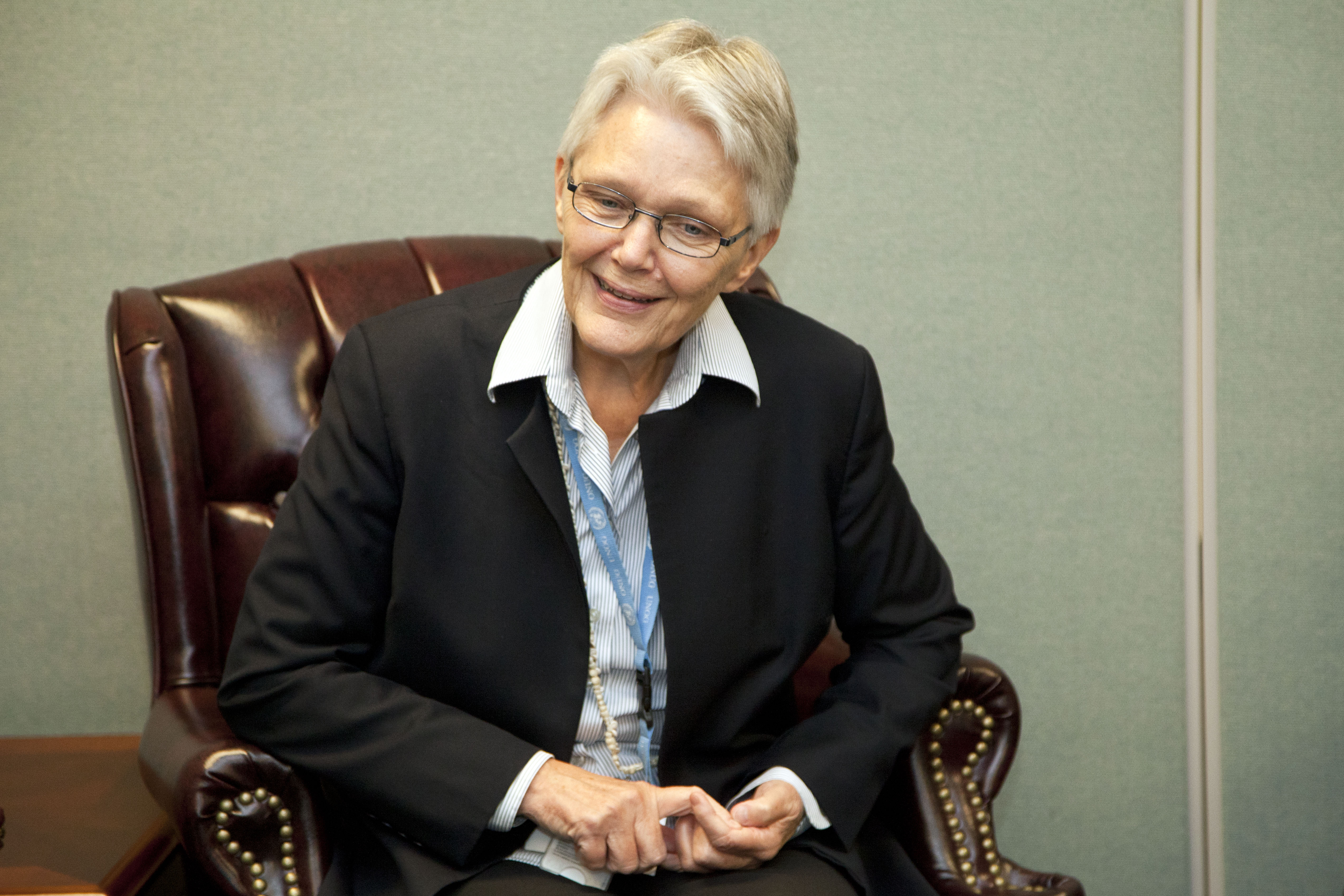 Margareta Wahlström, United Nations Special Representative of the Secretary-General for Disaster Risk Reduction.